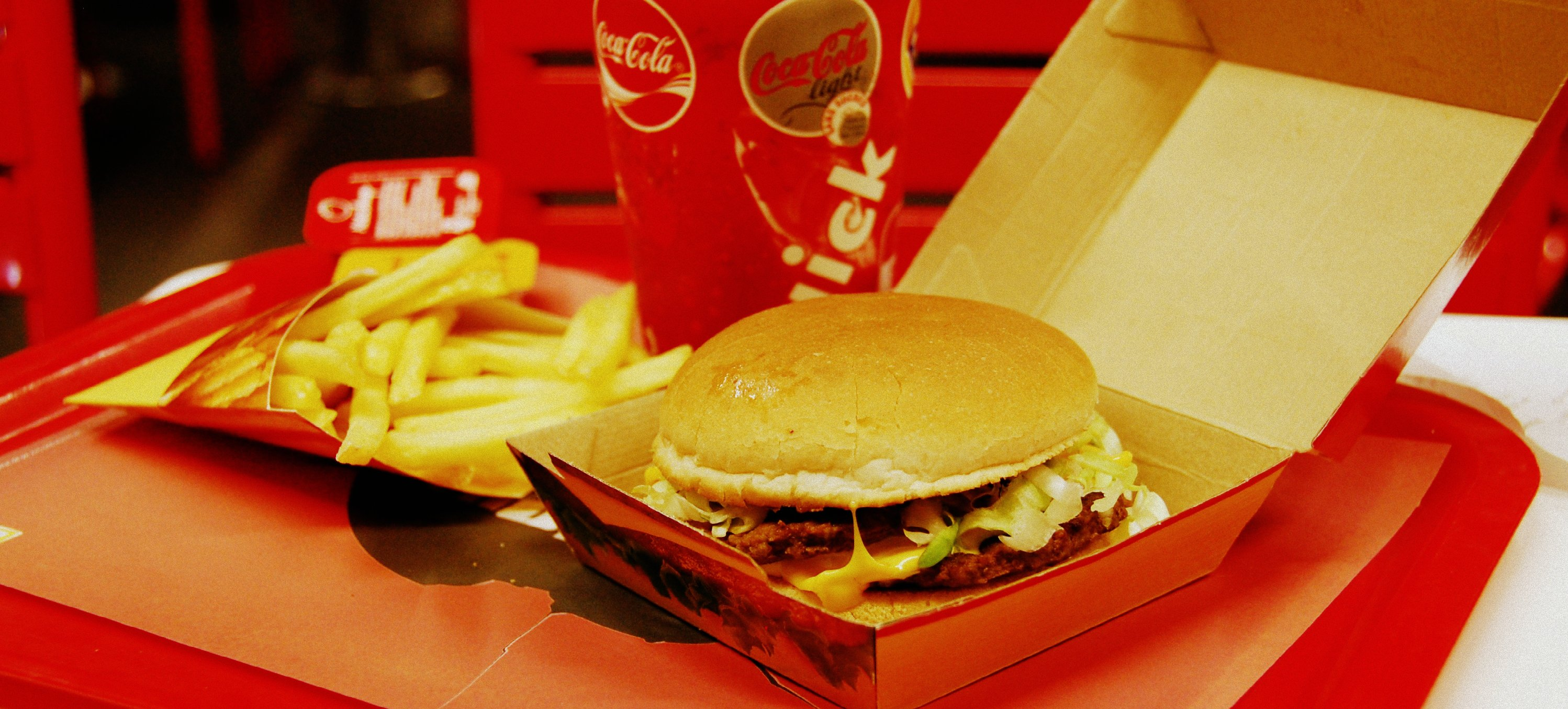 Quick is a Belgian-French fast-food restaurant chain similar to McDonald's. "The Giant" is one of the hamburgers served by Quick restaurant (comparable to an American 99 cent burger). The meal (with fries and drink) is about 7 euro.